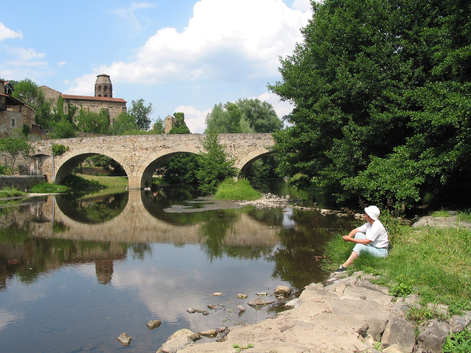 Lavaudieu (Haute-Loire - France), the medevieval village, the old bridge on the Senouire River and the abbey dedicated to Saint André (XI/XIIe siècles).